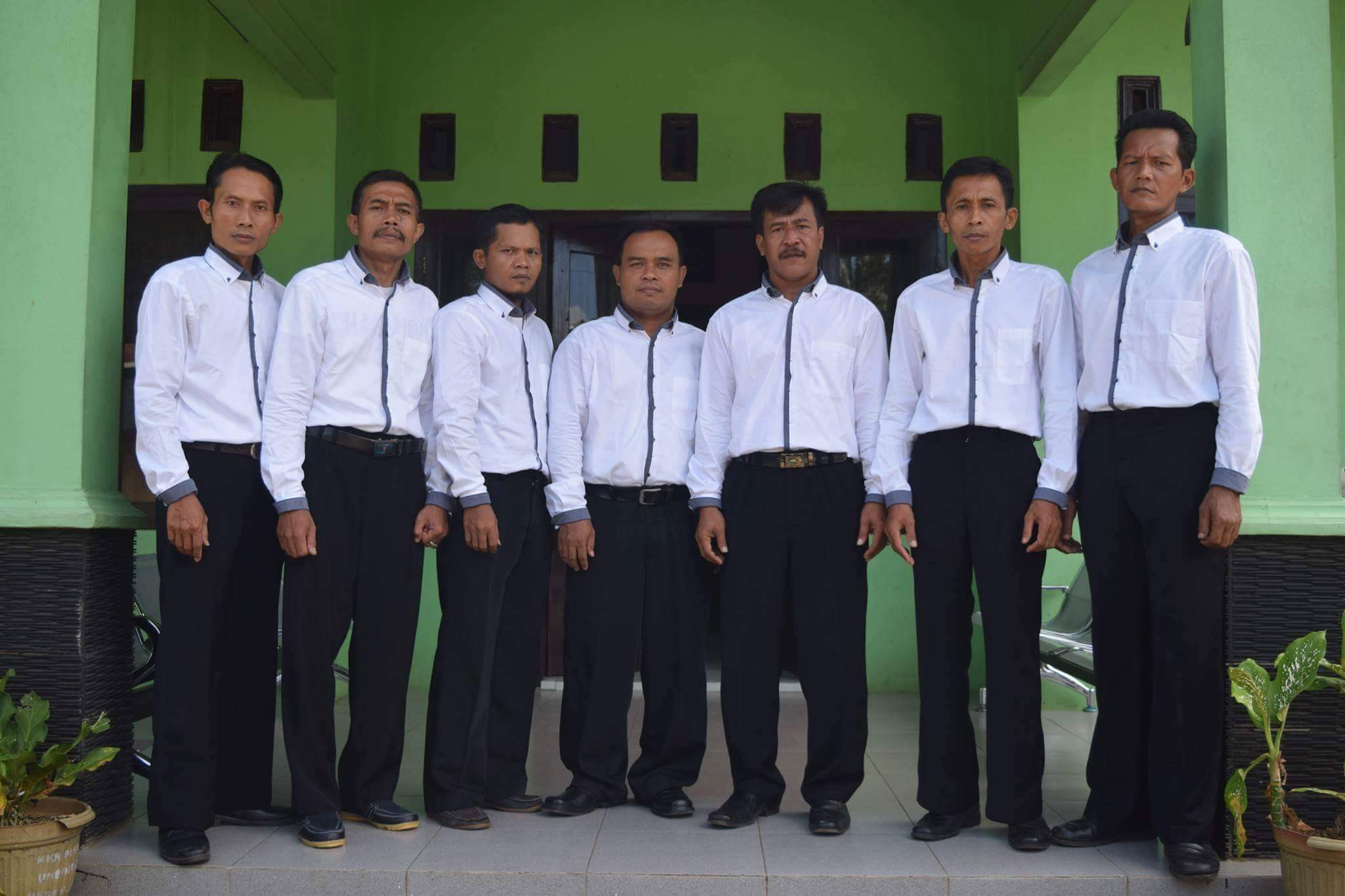 Work desa